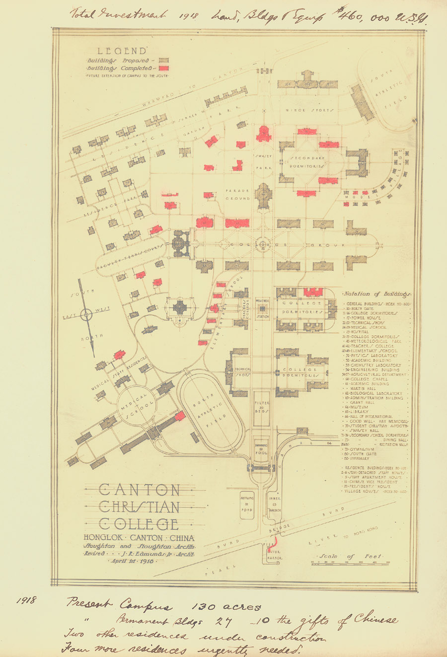 The Canton Christian College(Lingnan University & Sun Yat-sen University) in Honglok(Honam), Canton, Kwangtung, China.